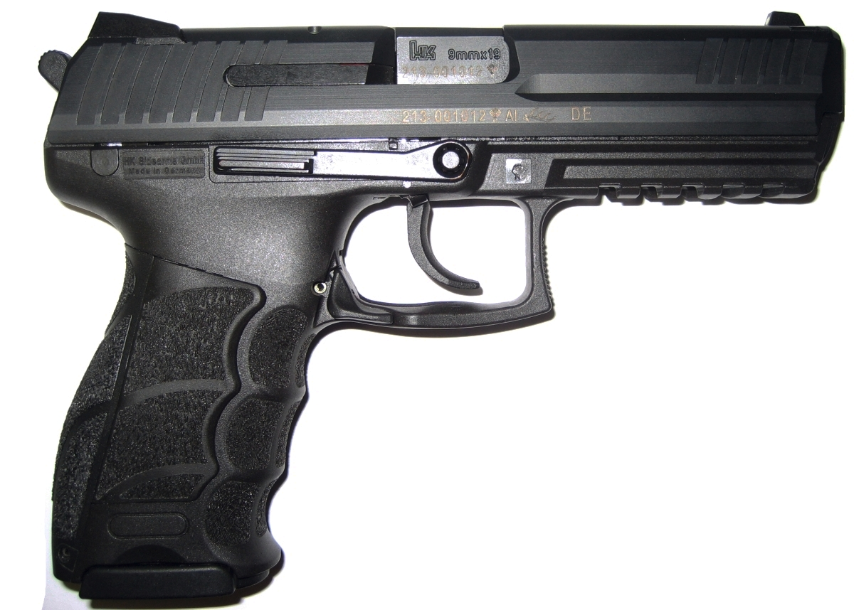 Heckler & Koch P30L, 9x19mm Parabellum.